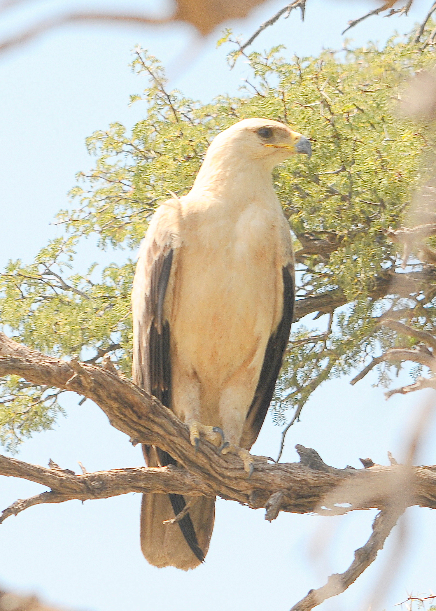 Tawny Eagle, Kgalagadi Transfrontier Park (South Africa and Botswana), Africa.